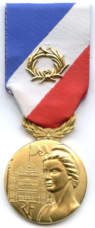 France - Medal for Internal Security, gold grade.